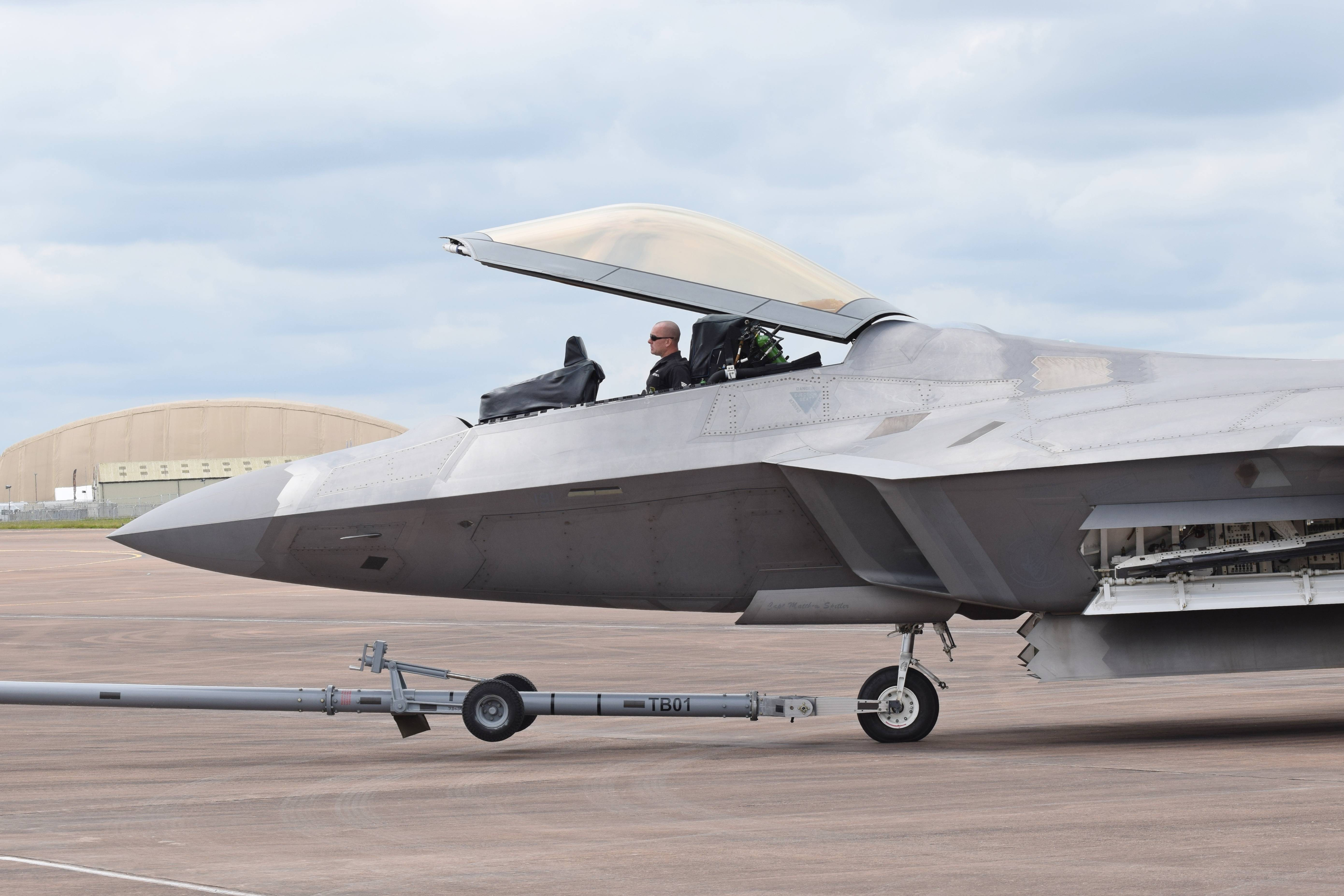 Lockheed Martin F-22A Raptor (09-4191) arrives at the 2016 Royal International Air Tattoo at RAF Fairford, England. The man in the cockpit is a member of the maintenance team. The aircraft is being towed to its static display location.